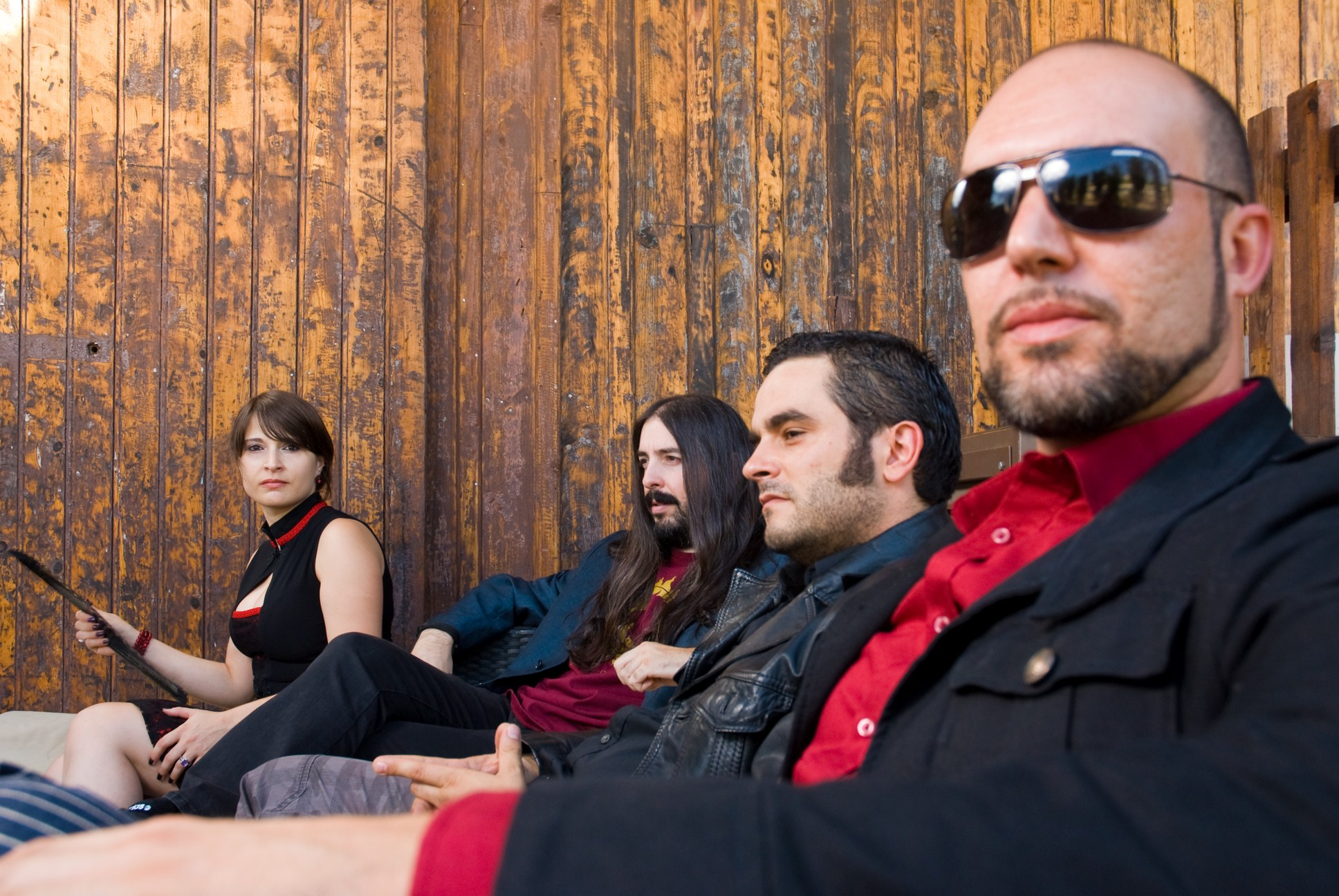 Promoshoot for ThanatoSchizO's Origami at Régua (Portugal) 2010